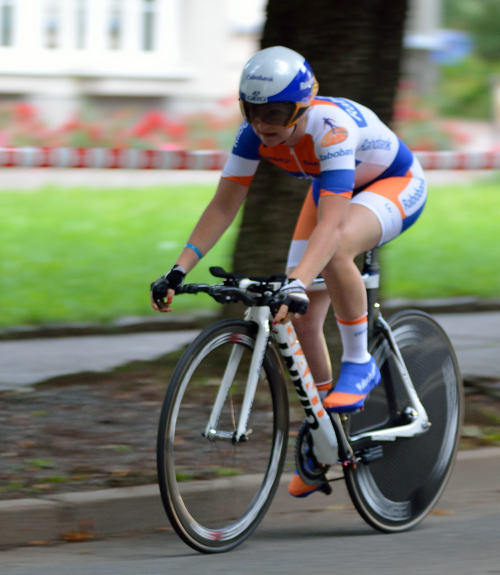 Lauren Kitchen from the Rabobank Women Cycling Team during the Women's Tour of Thuringia 2012 in Zwickau, Germany.